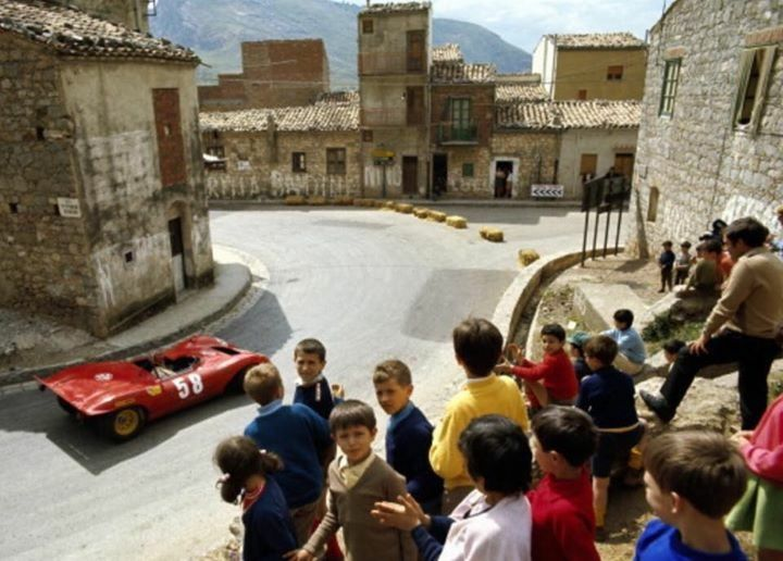 The 1966 Dino 206 S Spyder s/n 022 at Collesano curva during Targa Florio on 3 May 1970. It ended in 11th place and was driven by Pietro Lo Piccolo and Salvatore Calascibetta.[1]